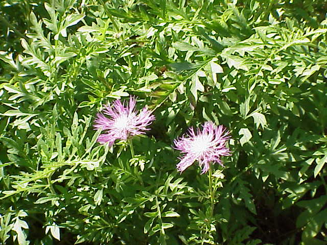 Species: Centaurea dealbata Family: Compositae Image No. 2